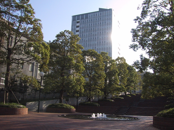 Toyo University Hakusann Campus (東洋大学白山キャンパス)